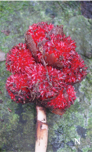 Amomum nilgiricum, infructescence